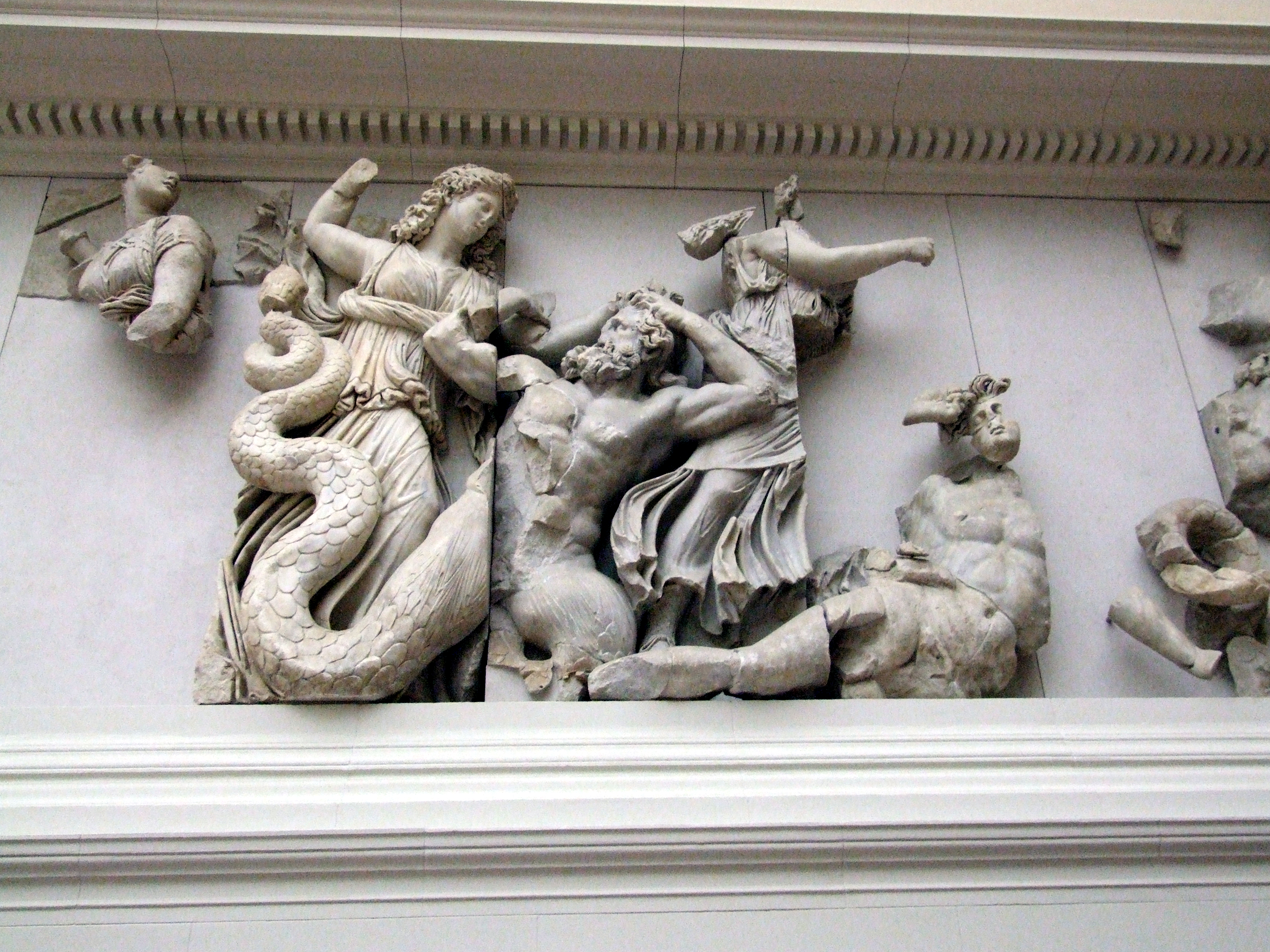 The moirs struck Agrios and Thoas while gigantomachy